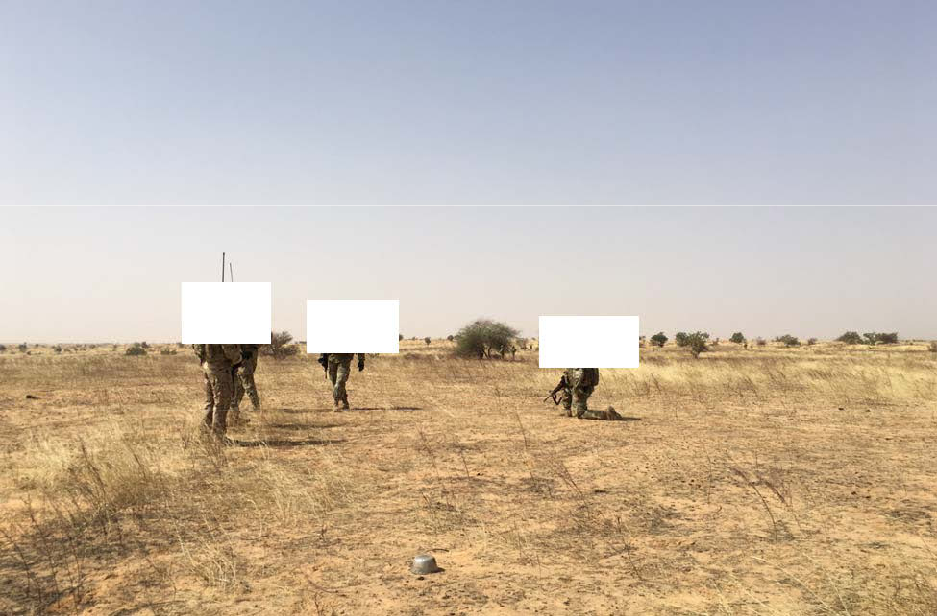 This photograph is taken from the vantage point of where 42 DShK shell casings were discovered during the investigation’s site survey. SGT Johnson’s remains were discovered under the tree depicted in the center of the photograph.